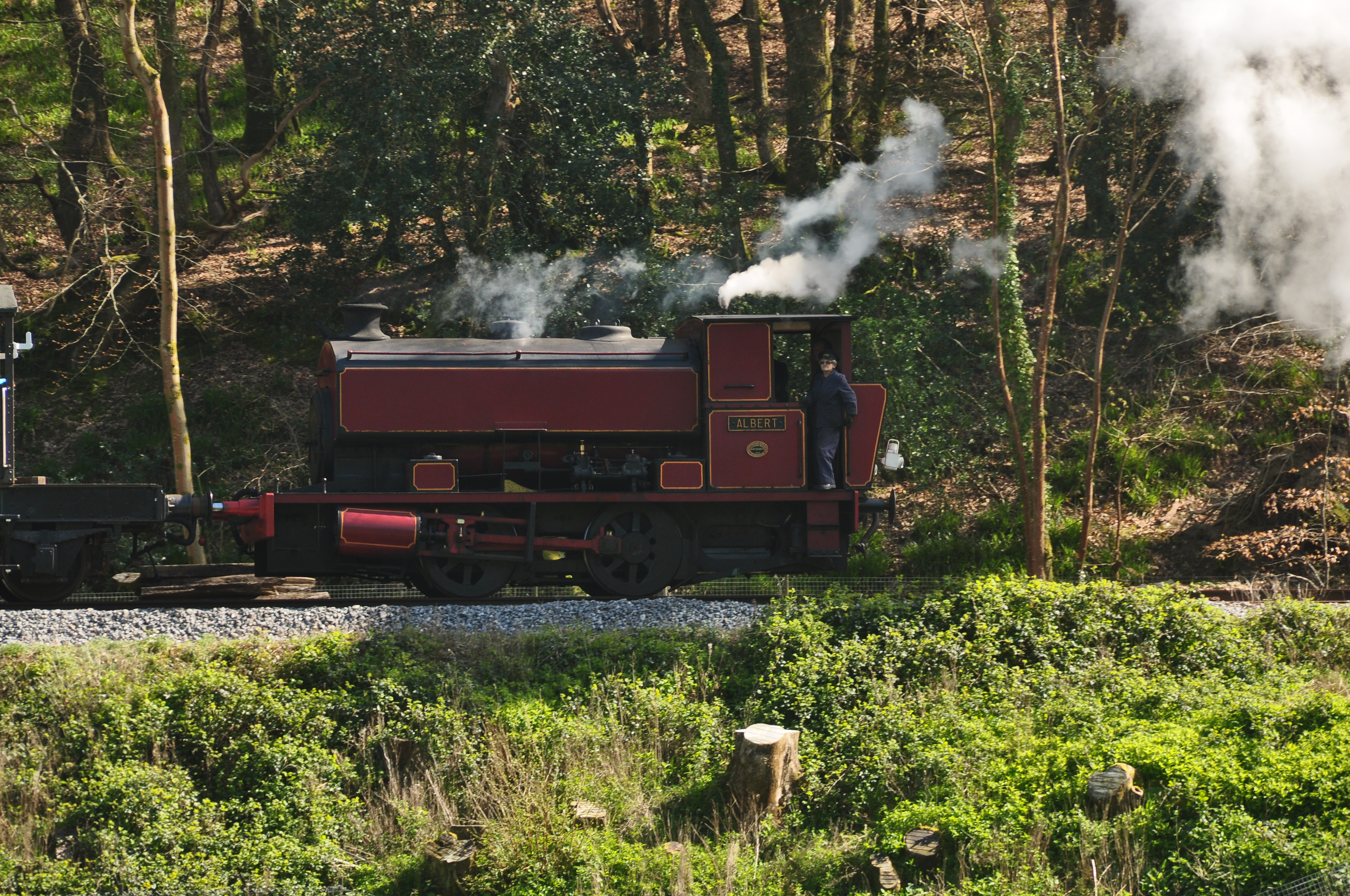 Albert on the Plym Valley Railway